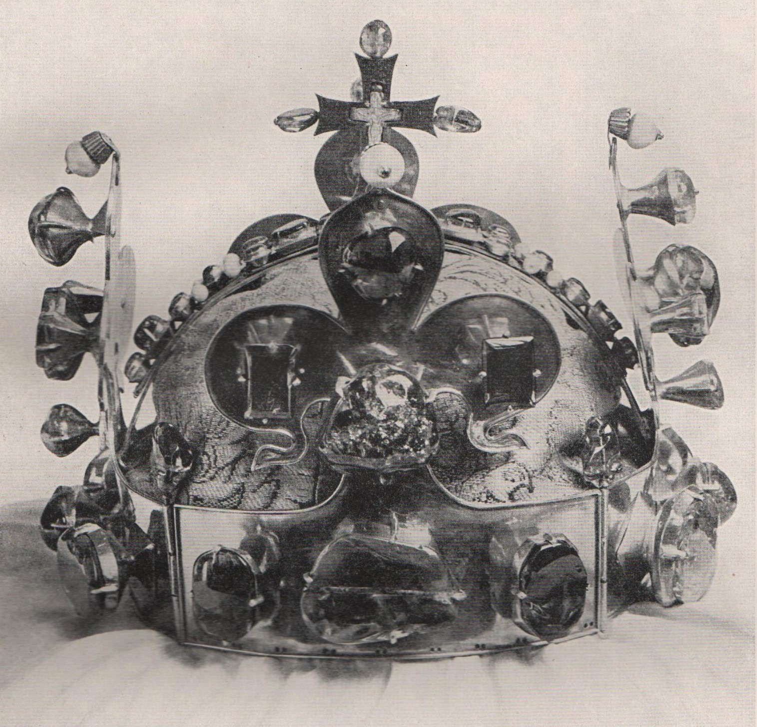 St. Wenceslaus Crown